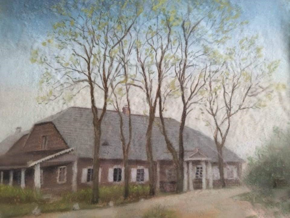 Wooden building of Milvydai manor in Lithuania, early 20 c. Watercolor and pencil on paper. Author unknown. This building was demolished circa 1950 during Soviet occupation of Lithuania.